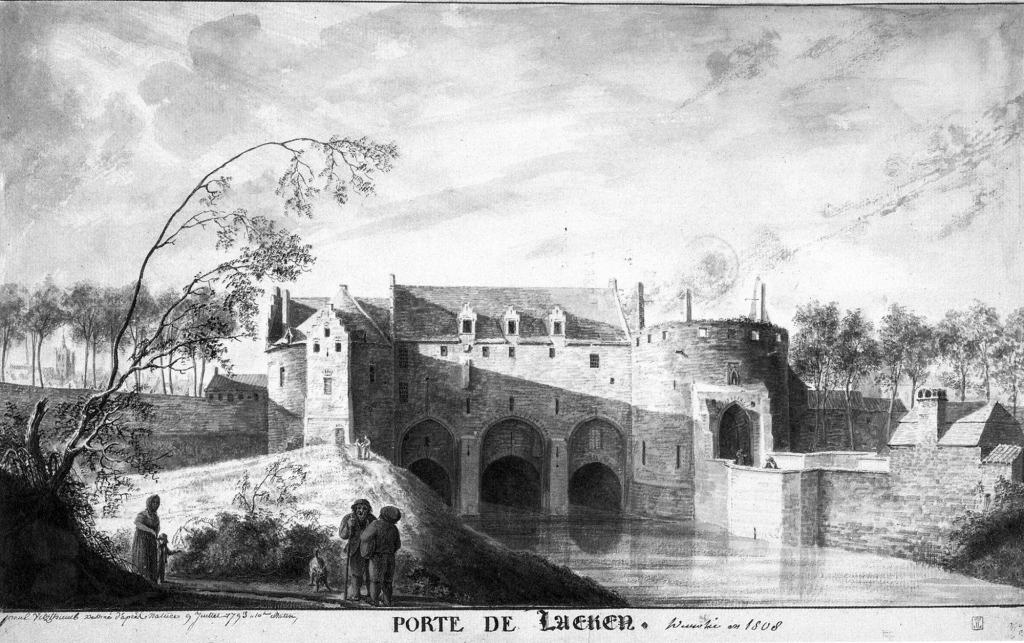 Drawing of the former Gate of Laken in Brussels (Paul Vitzthumb, 9 July 1793)